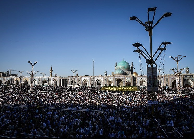 Du'a Arafah ceremony in Imam Reza shrine- Mashhad- August 2017